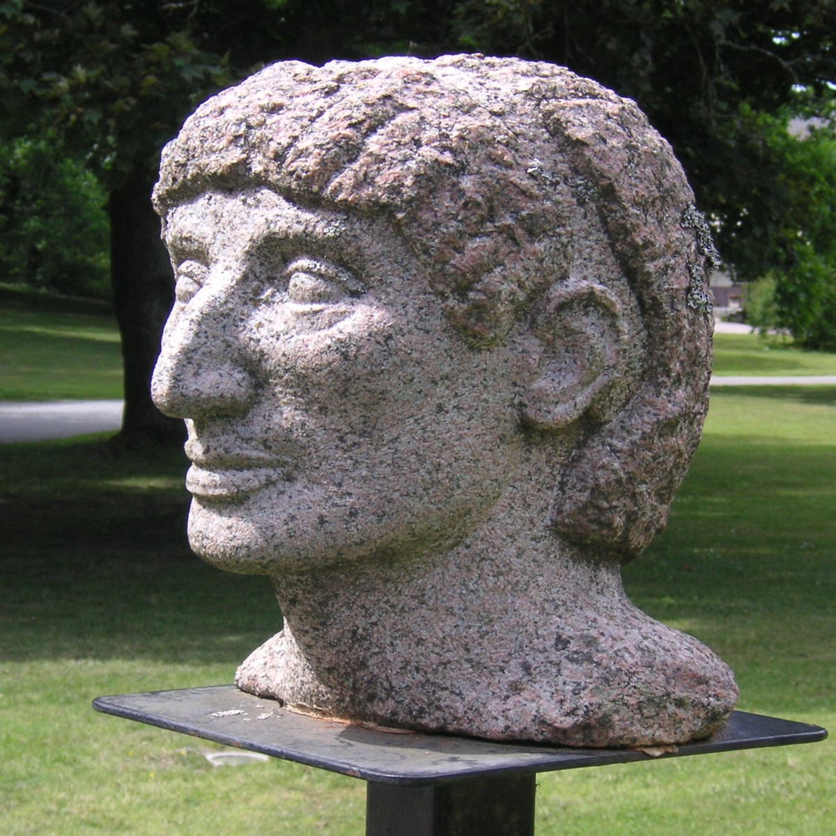 Marie Louise, granite sculpture by Olof Thorwald Ohlsson (1903–1982) in Blackeberg, Stockholm, Sweden